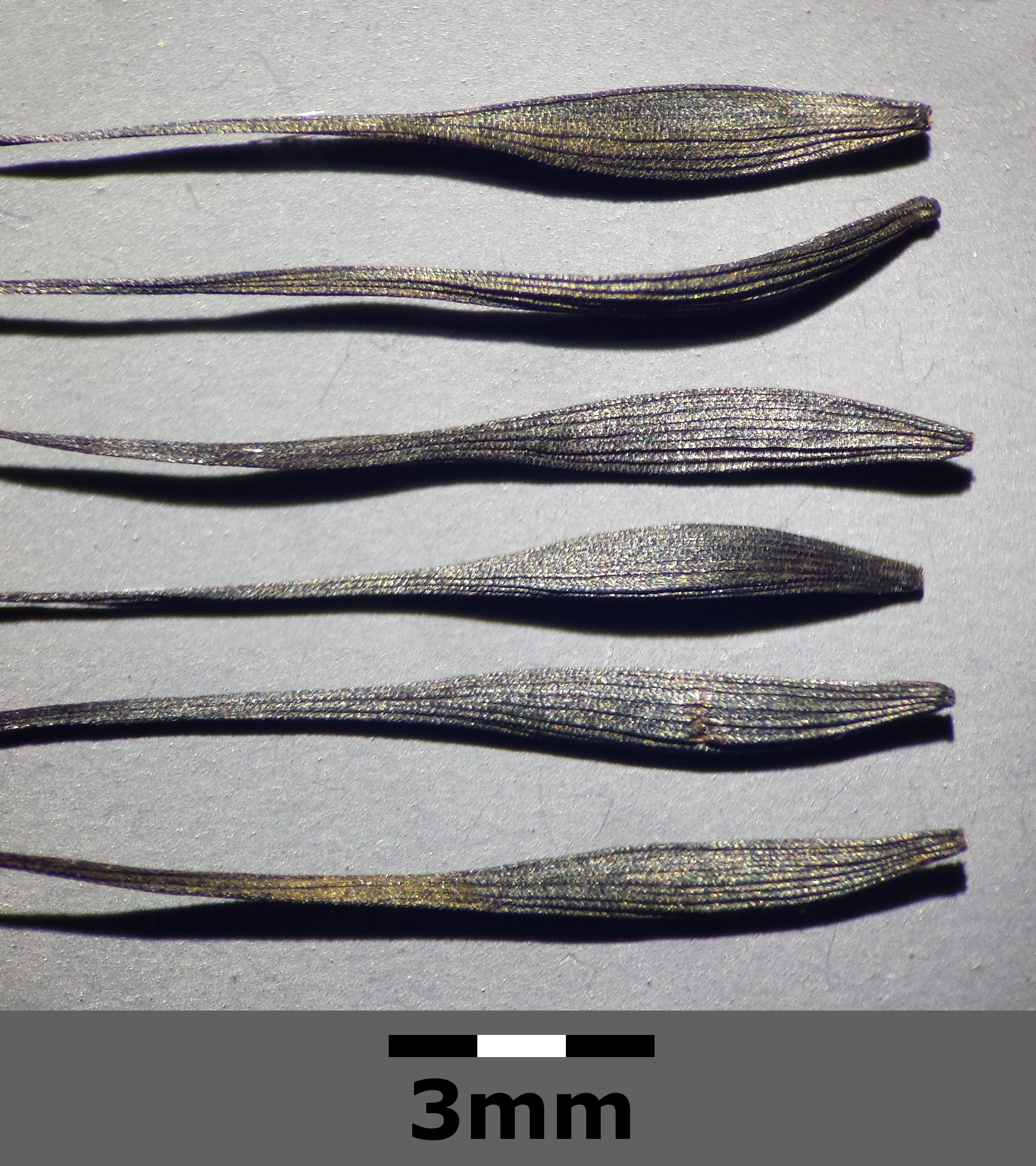 Achenes Taxonym: Lactuca viminea (ss Fischer et al. EfÖLS 2008 ISBN 978-3-85474-187-9) Location: Steinbacher Heide-Steinbruch near Oberleis, district Korneuburg, Lower Austria - ca. 430 m a.s.l. Habitat: rock steppe (lime stone)